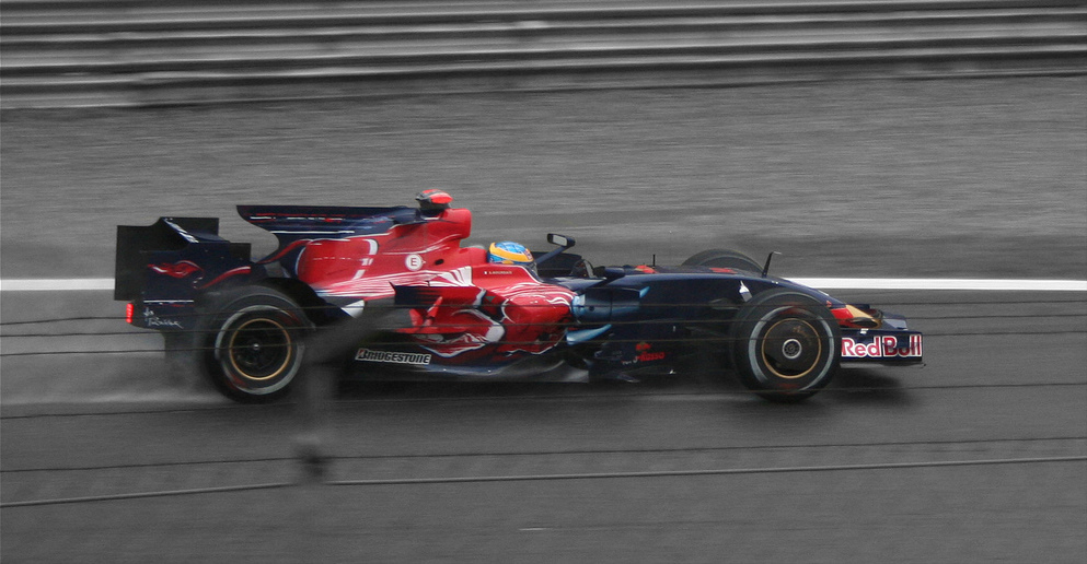 Sébastien Bourdais at 2008 Italian Grand Prix